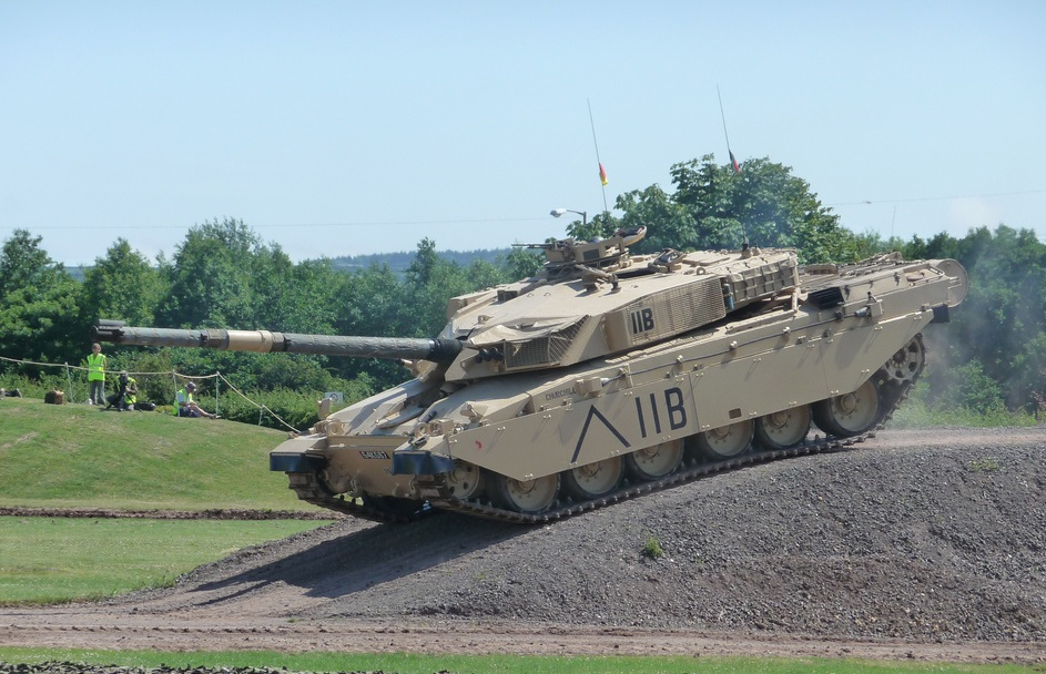 Challenger 1 at tankfest 2009